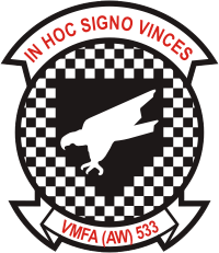 Insignia of the U.S. Marine Corps Marine All-Weather Fighter Attack Squadron 533 (VMFA(AW)-533).